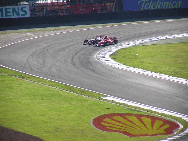 Formula One 2006 Rd.18 Interlagos: #5 Michael Schumacher (Scuderia Ferrari), last overtaiking